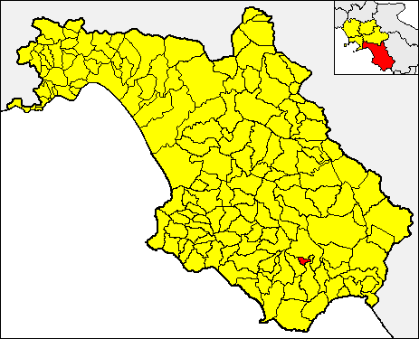 Locator map of the municipality of Alfano (red) within the Province of Salerno